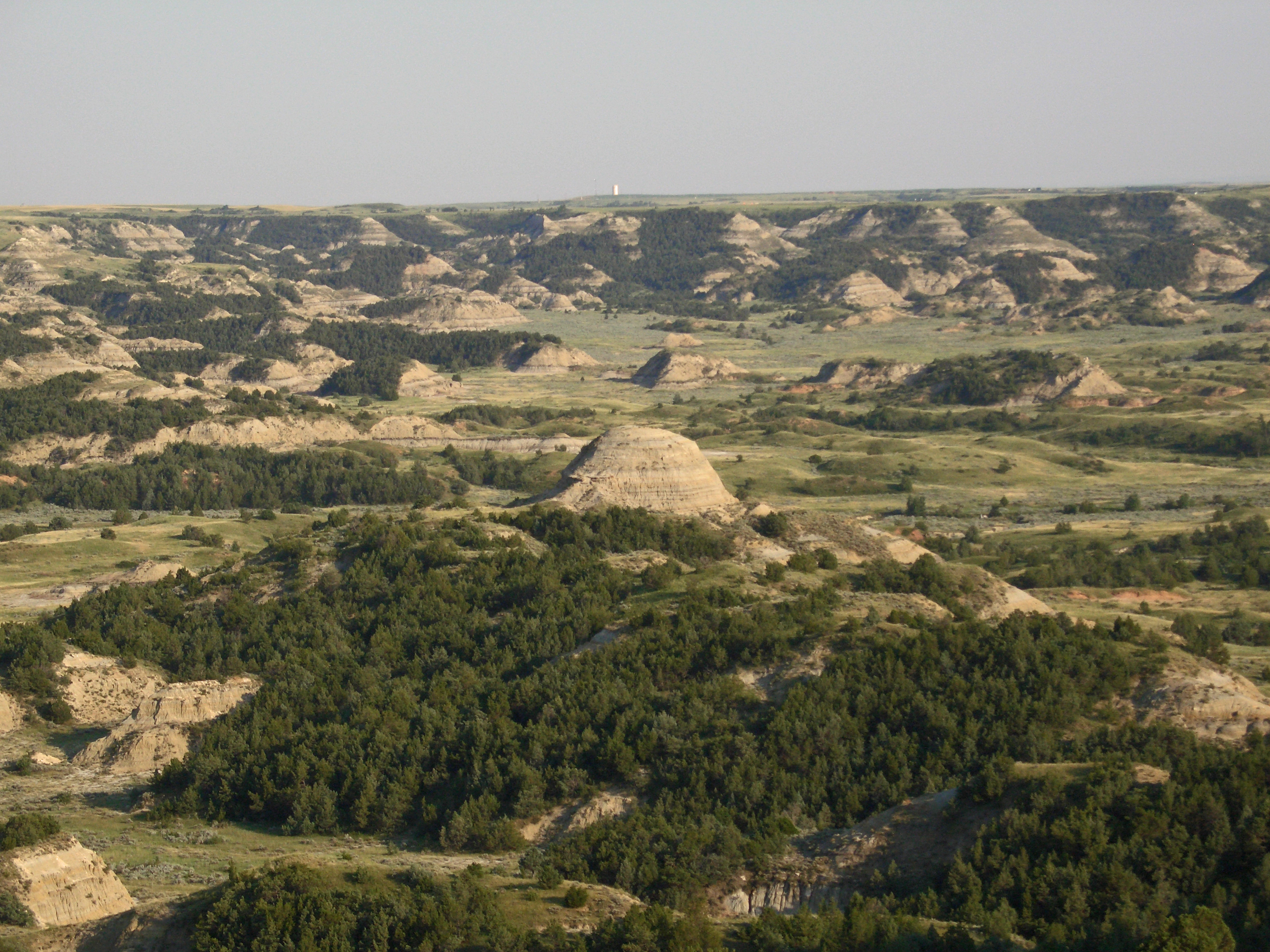 Badlands Overlook. Theodore Roosevelt National Park